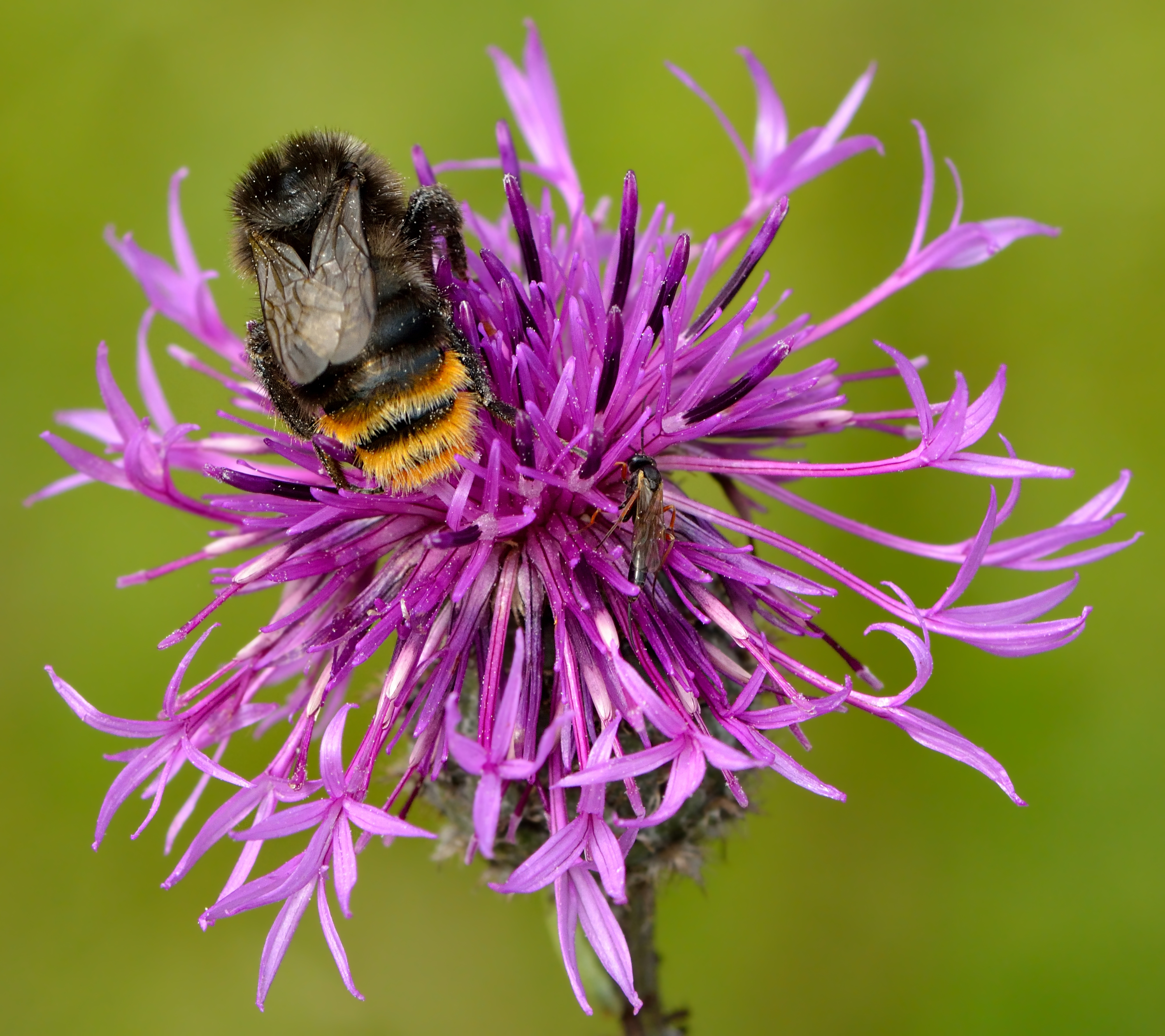 Red-tailed cuckoo bumblebee (Bombus rupestris) on the greater knapweed (Centaurea scabiosa). Keila, Northwestern Estonia.